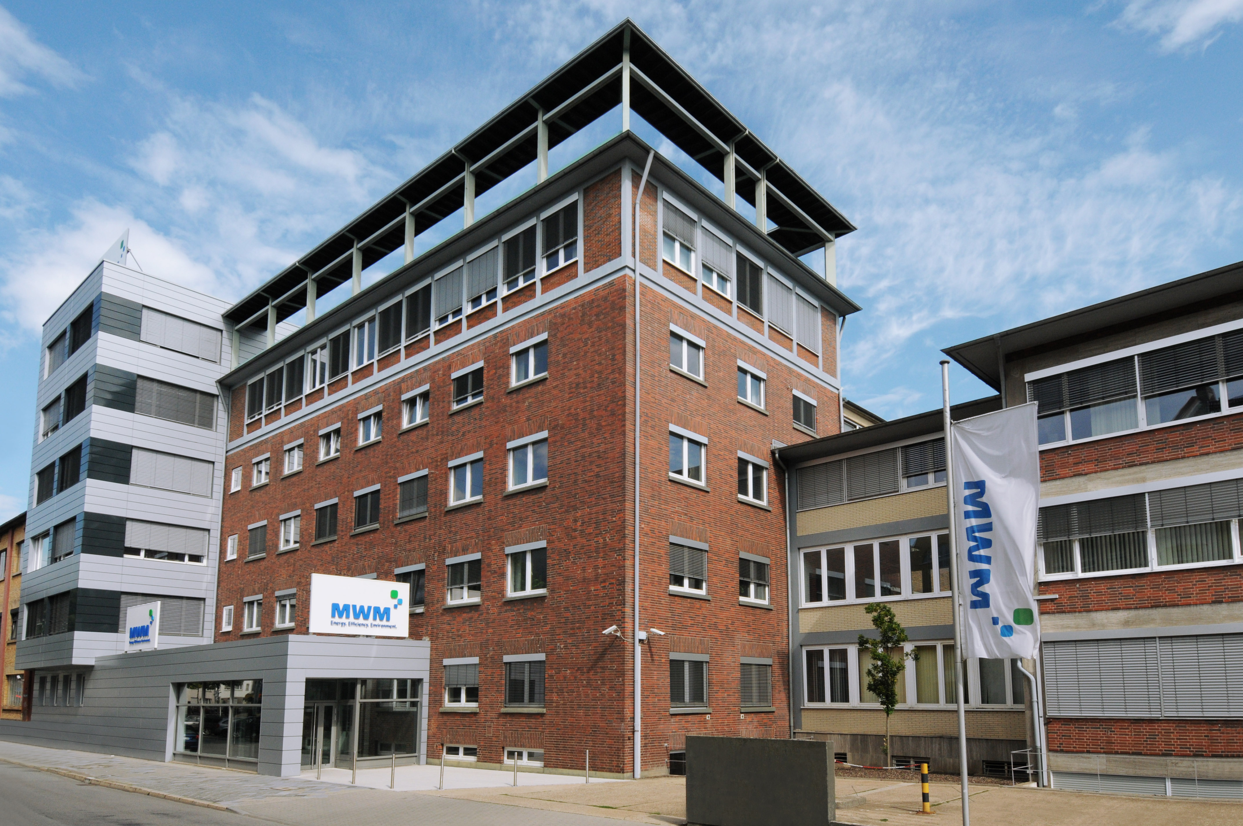 MWM GmbH headquarters in Mannheim, Germany